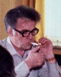 Victor Ciocâltea, International German Championship 1981 at Bochum, Photographer Gerhard Hund.